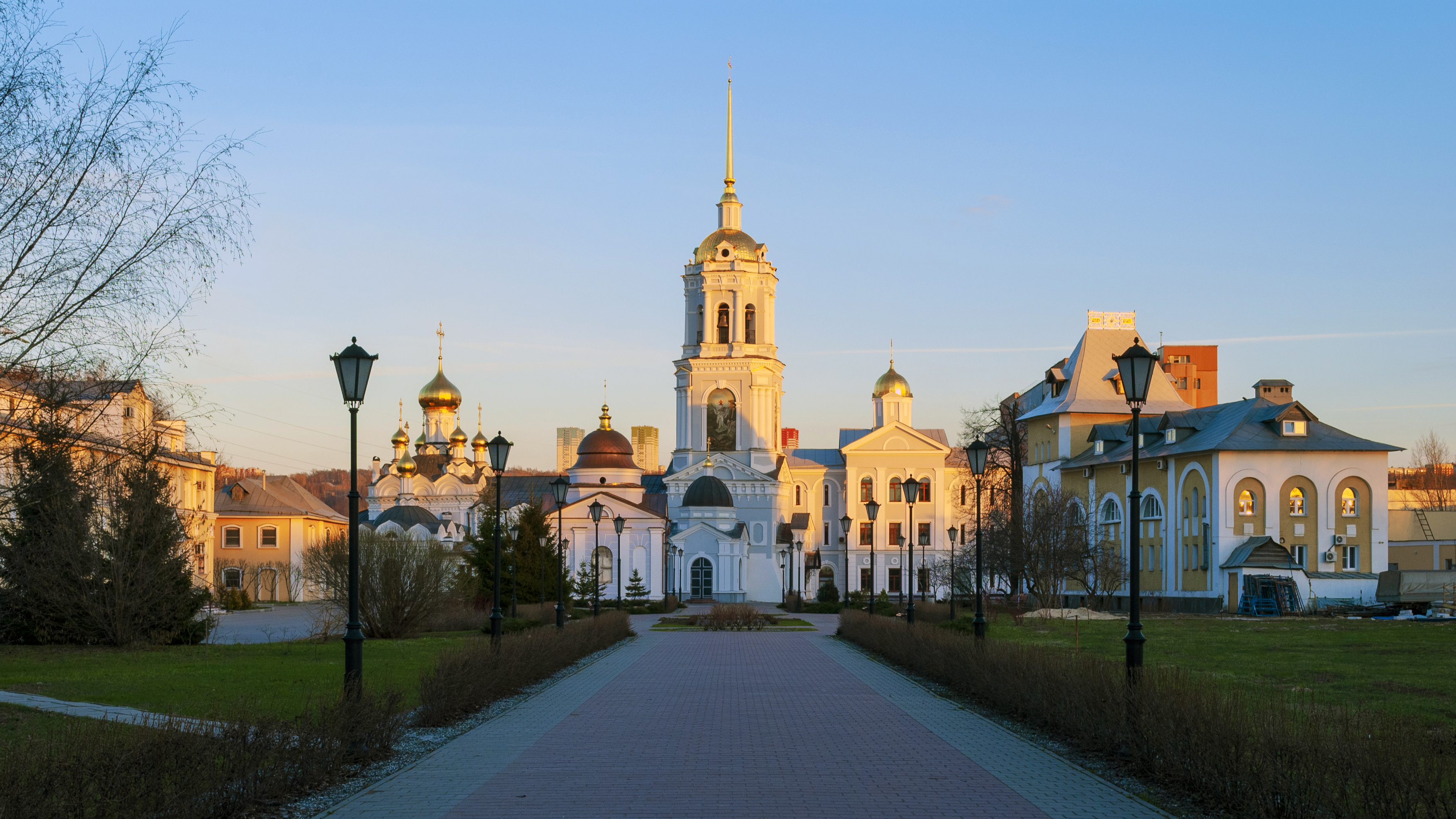 Transfiguration (Karpovskaya) Church in Nizhny Novgorod